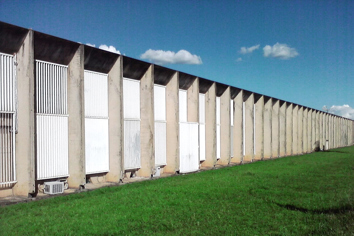 Central Institute of Sciences - University of Brasilia